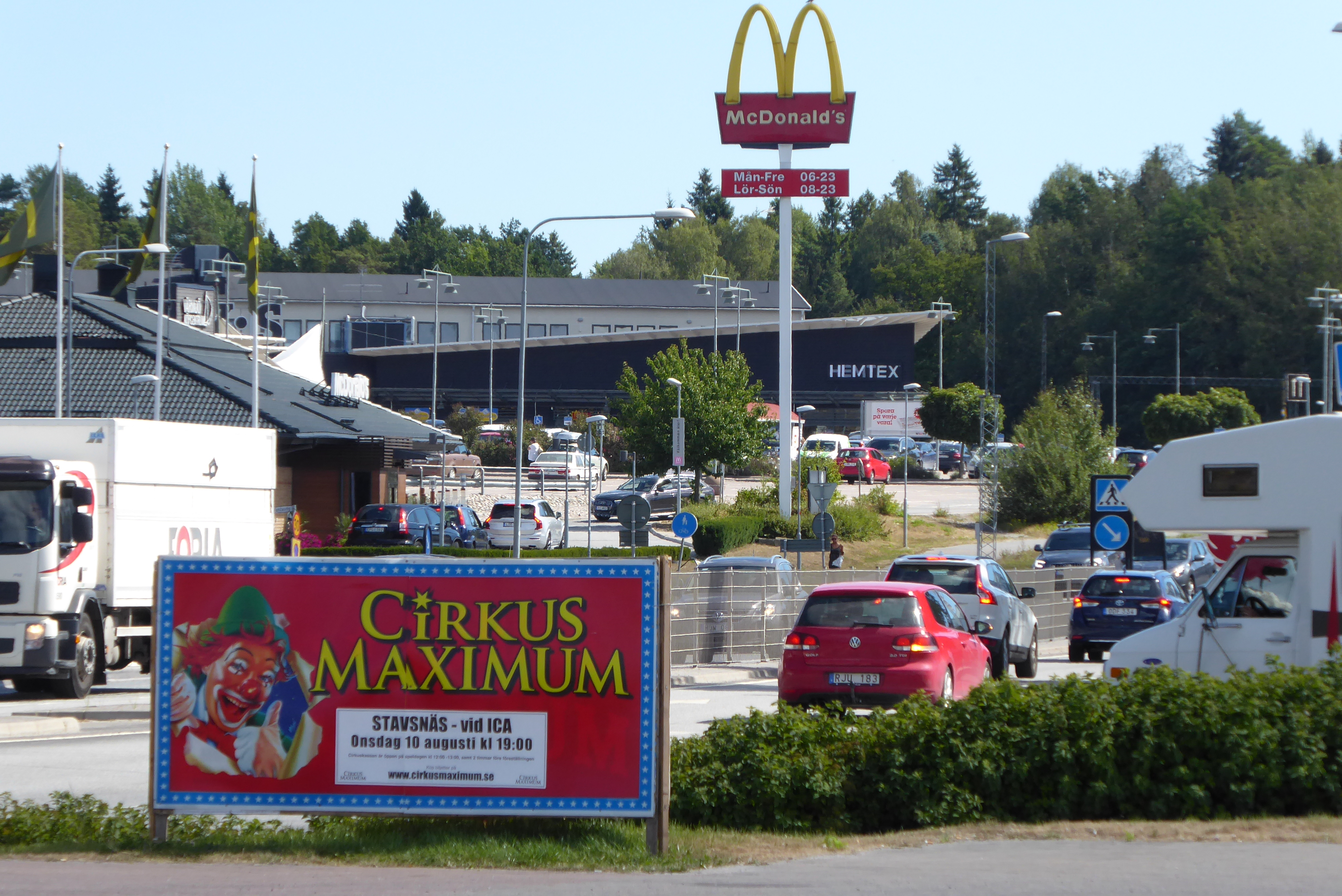 Annons för Cirkus Maximum i Mölnvik i Gustavsberg augusti 2016